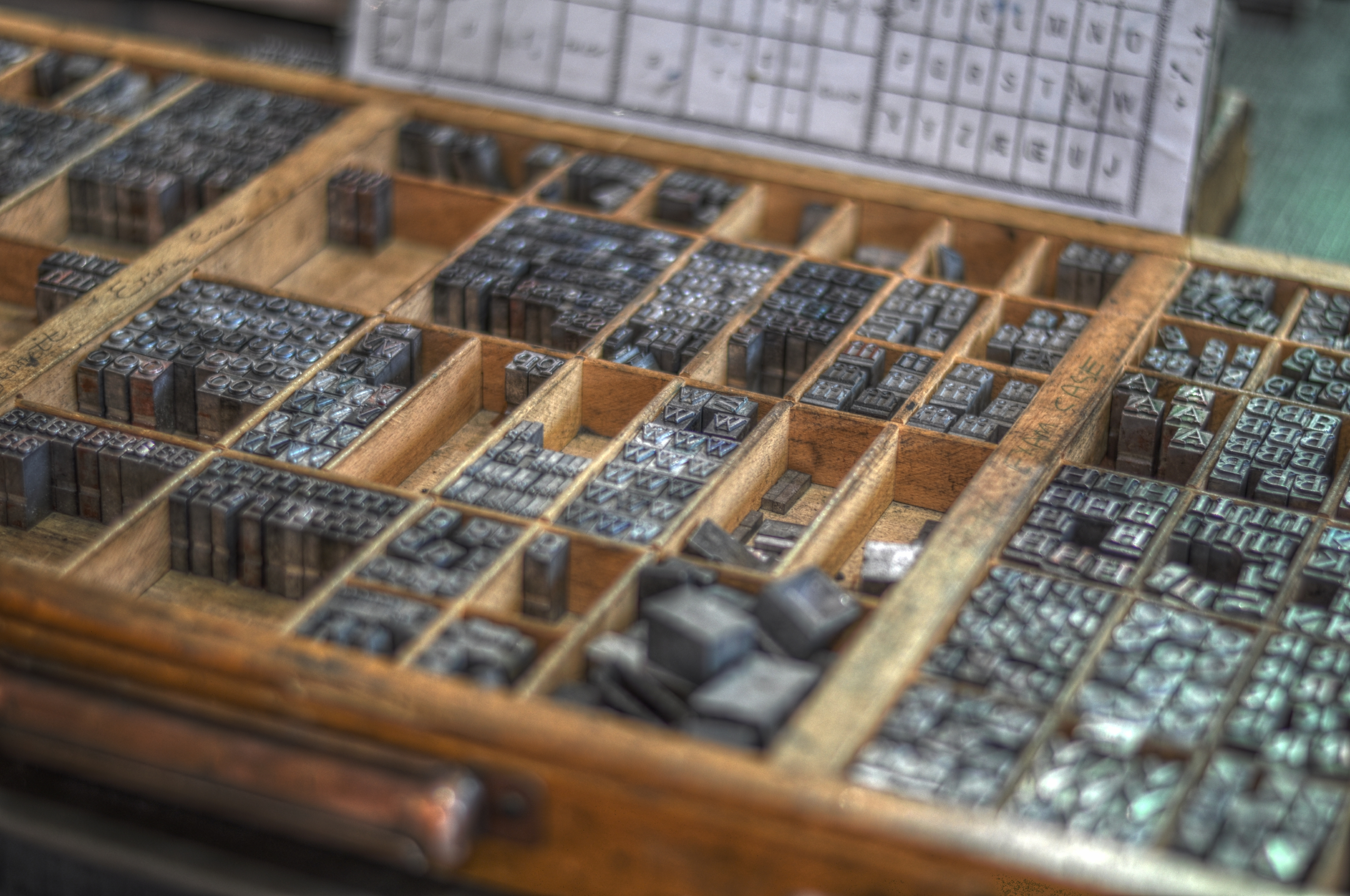 8 Software: LuminanceHDR (Mantiuk'06)